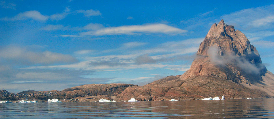 The City of Uummannaq (far left), in northern Greenland, dwarfed by the 1100 meter high mountain which gives the city its name.